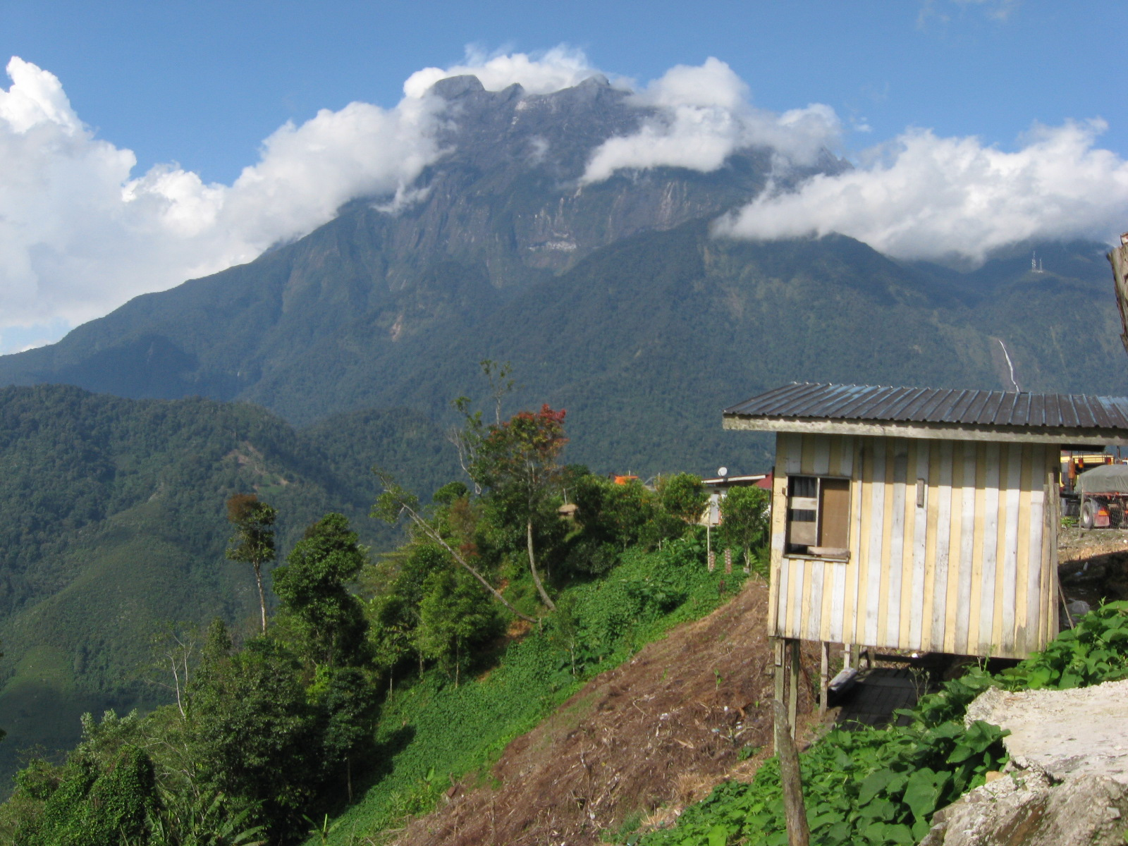 Made during my travels to Malaysia for work on the Baha'i project Bahaipedia.